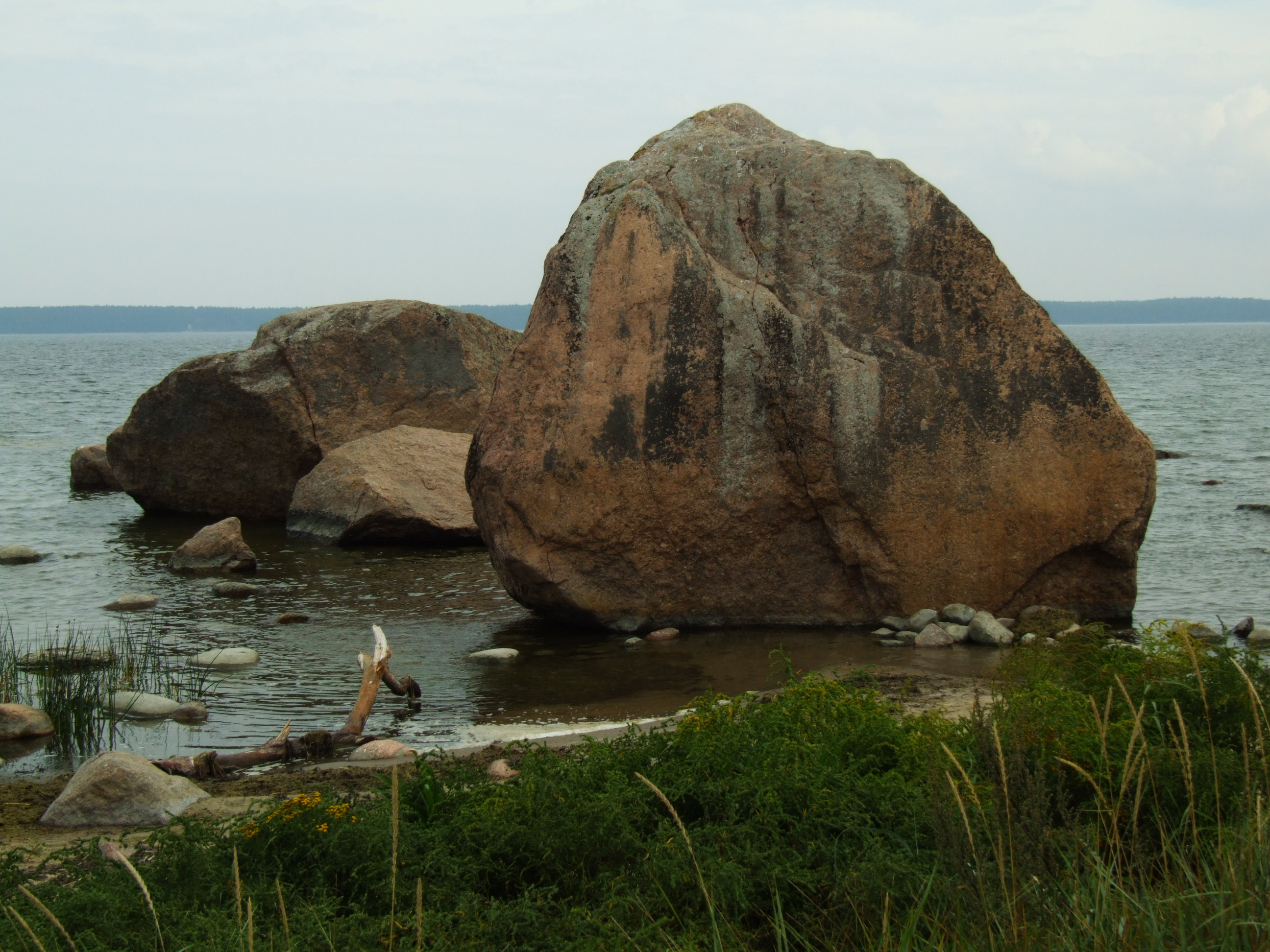 Vana Juri boulder, Lahemaa NP